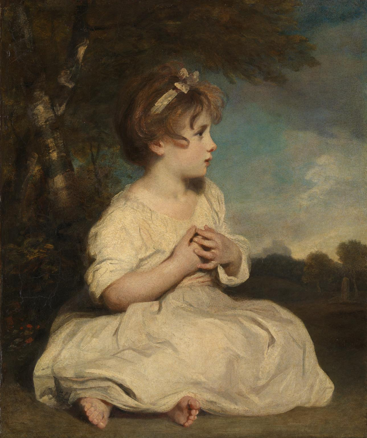 Caption from the museum This picture, presented to the National Gallery in 1847, and subsequently transferred to Tate in 1951, has for many years been among Reynolds's best known works. In the nineteenth century it was deeply admired and frequently copied, National Gallery records revealing that between its acquisition and the end of the century no fewer than 323 full-scale copies in oil were made. The picture was not a commissioned portrait but a character study, or 'fancy picture', as the genre was known in the eighteenth century. The present title was not invented by Reynolds, but derives from an engraving of 1794, the second impression of which was inscribed 'The Age of Innocence'. Traditionally, it is has been thought that the picture was painted in 1788. However, it is very probably identifiable with a work exhibited by Reynolds at the Royal Academy in 1785, and entitled simply 'a little girl'. On 8 April 1785 The Morning Herald, previewing Reynolds's proposed exhibits for the forthcoming Royal Academy exhibition, noted: 'An Infant Girl, disposed on a grass plat in an easy attitude. The companion to it is a girl fondling a bird. These subjects are fancy studies of Sir Joshua's and do him honour'.